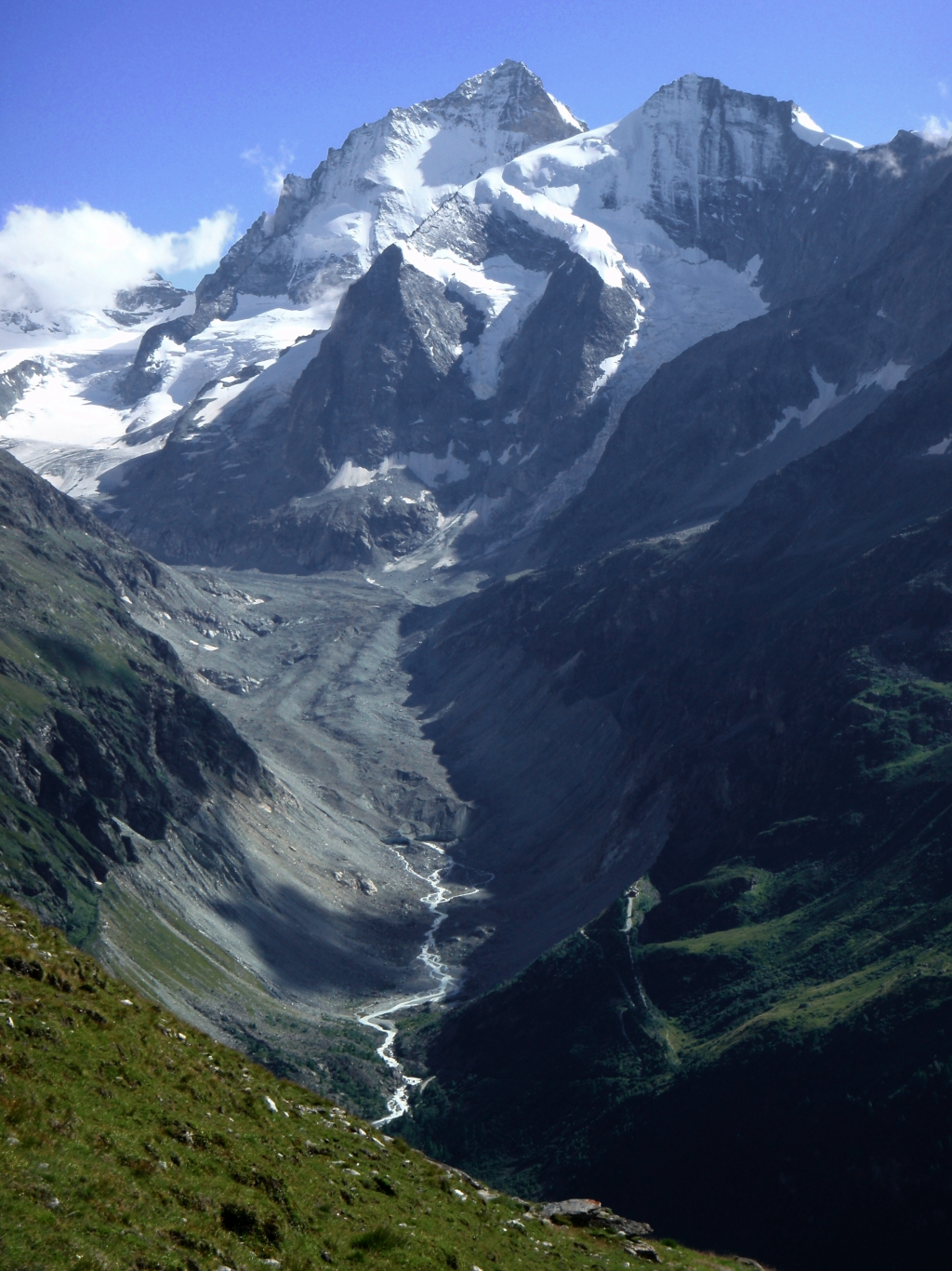 Val de Zinal with Glacier de Zinal in the Pennine Alps, Valais, Switzerland. In the background the summits of Dent Blanche (4.357 m) and Grand Cornier (3.961 m). On the left moraine the hut of Petit Mountet (2.141 m). Foto was taken on 04.08.2009.